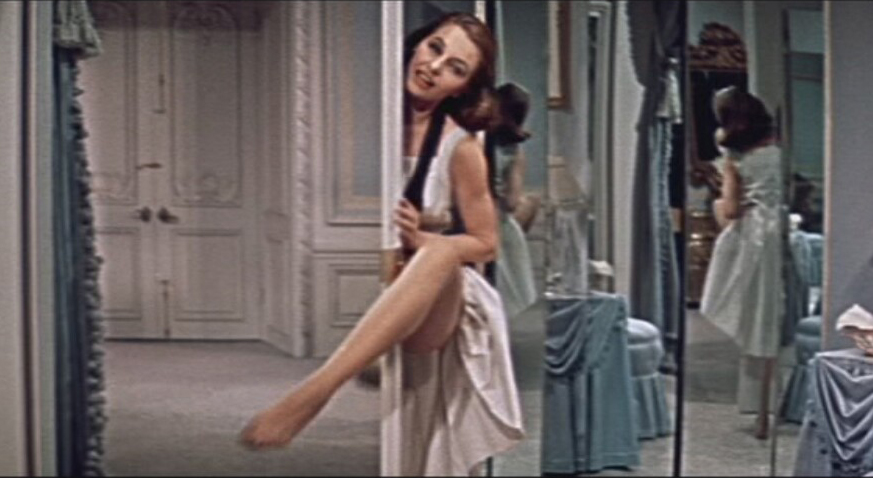 Cyd Charisse in Silk Stockings (1957) trailer